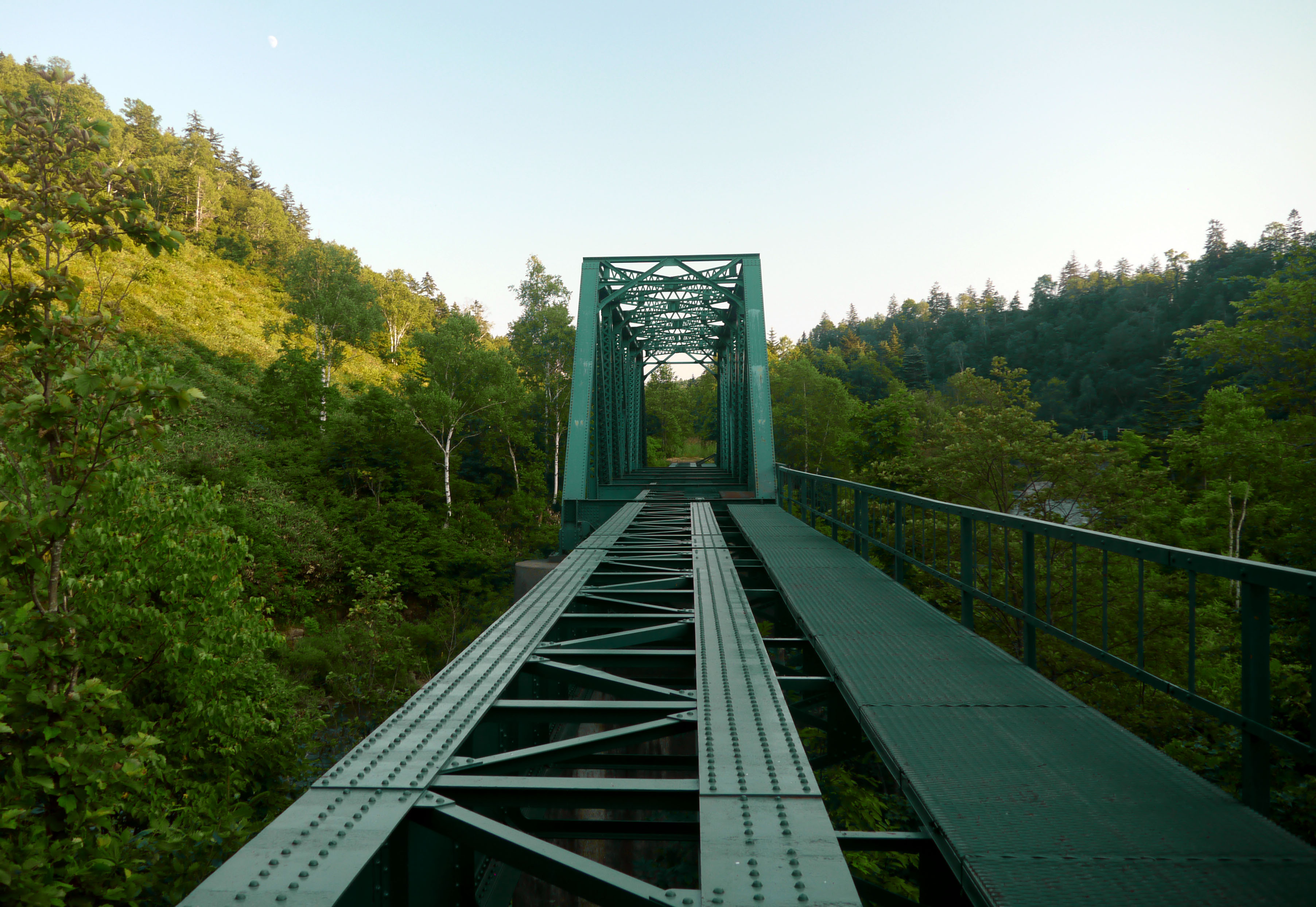 Daisan Uryū River Bridge of the Shinmei Line in Hokkaido, Japan.